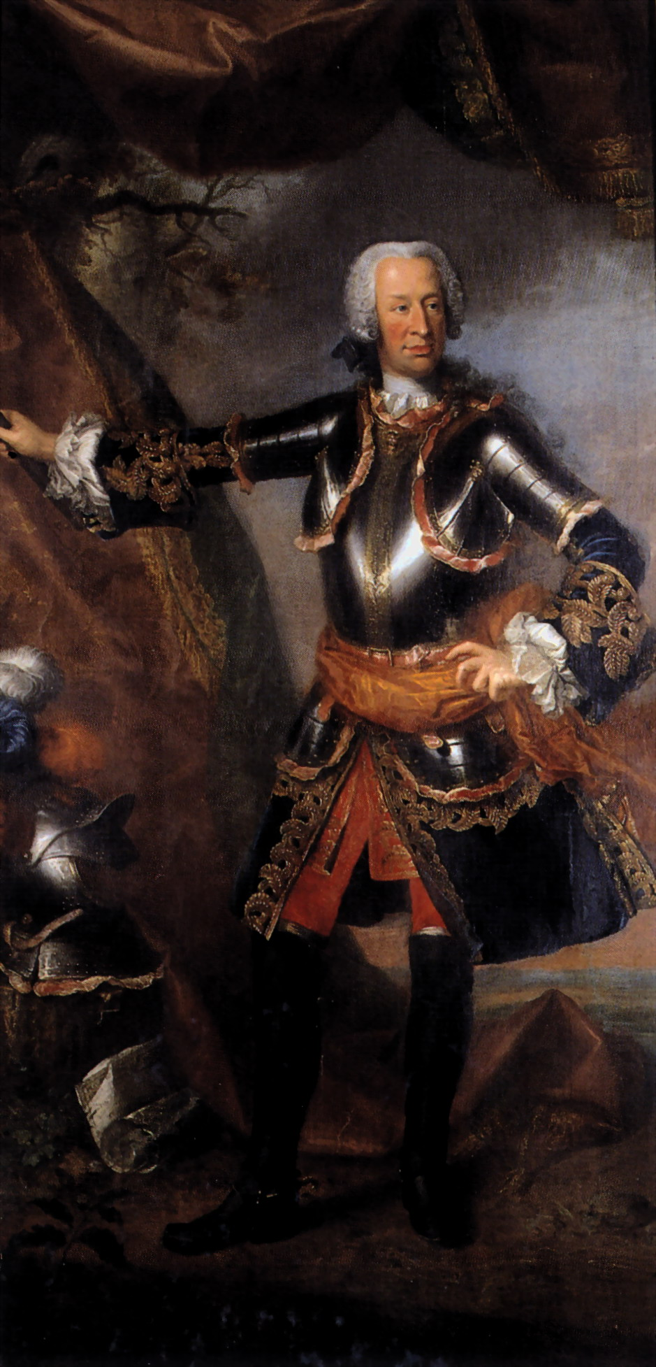 Hobbe Esaias, baron van Aylva (1696-1772), painted for the Gouvernors Palace in Maastricht by Johann Valentin Tischbein, ca 1750. Museum collection of Schloss Fasanerie, Fulda, Germany.